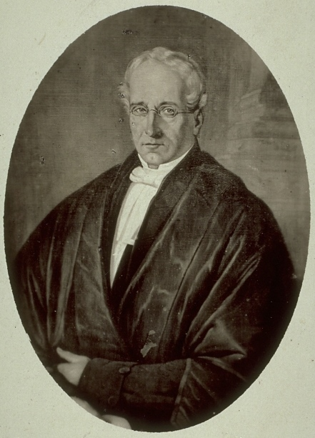 Photograph, Austin Cuvillier of Montreal Merchant, 9.3 x 6.8 cm